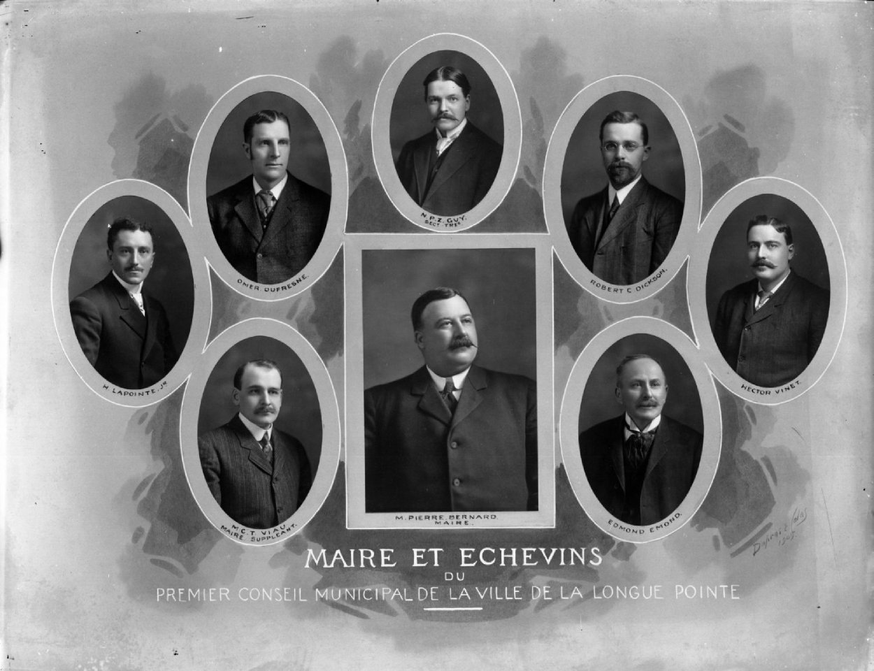 First municipal council of Longue Pointe city, Québec (1910)